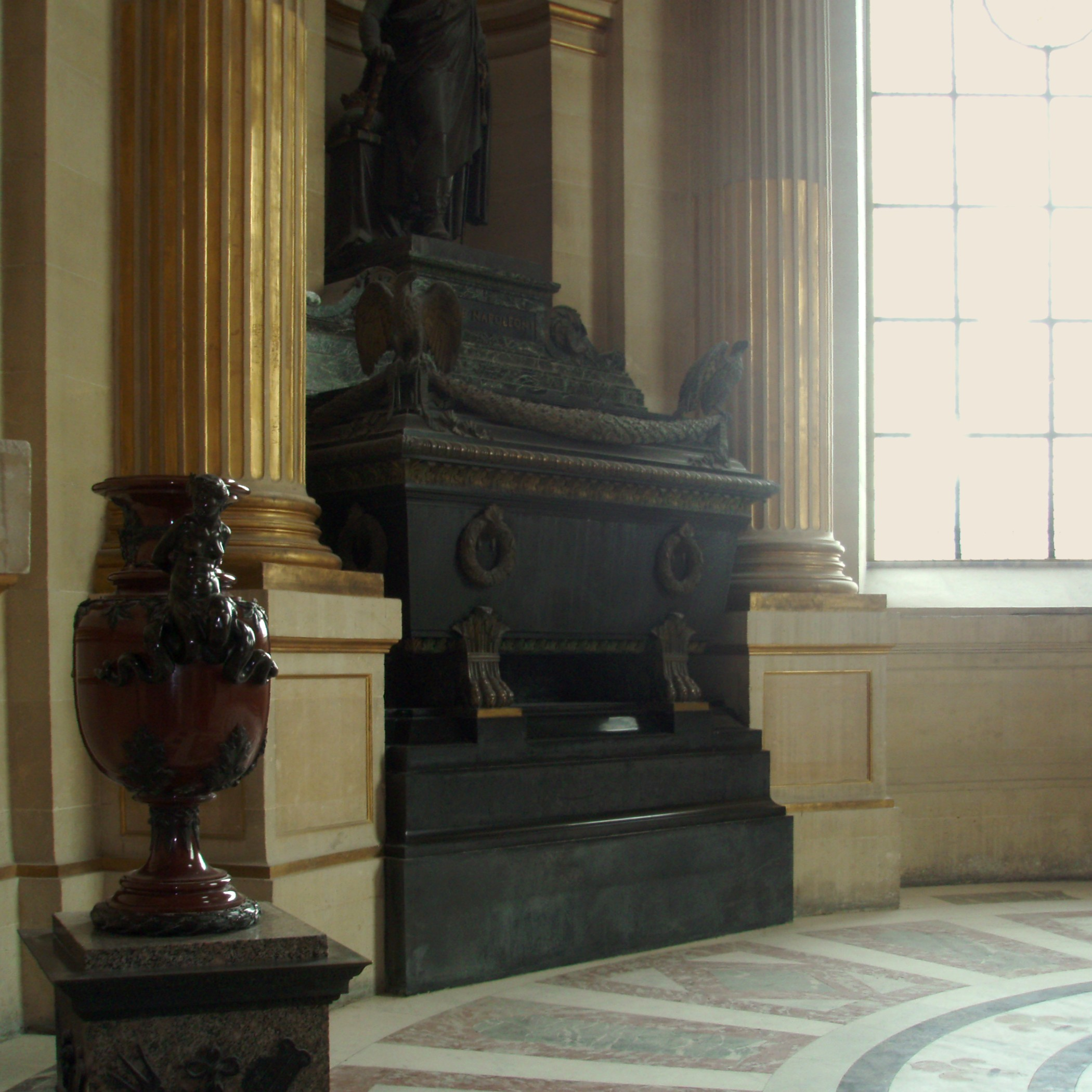 Tomb of Jerome Bonaparte at Les Invalides